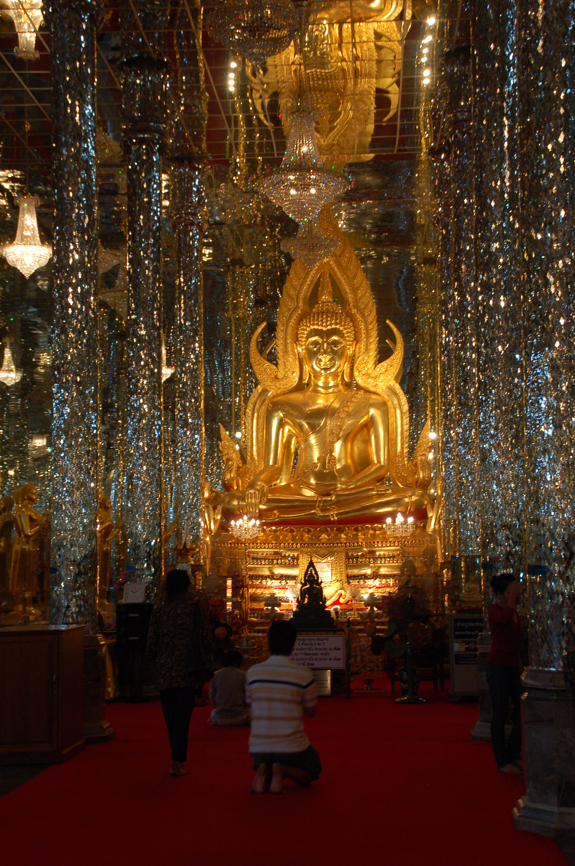 Wat Chantaram (or Wat Tha Sung, Uthai Thani)